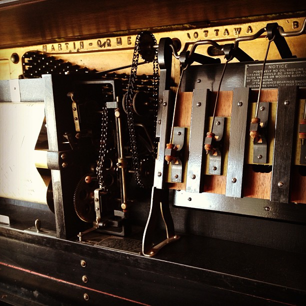 Martin Orme player piano and blower detail References Martin Orme Piano Company — 1861 – 1924, 175 Sparks Street, Ottawa, ON. . "Martin Orme was a small manufacturer located in Ottawa, originally called J.L.Orme.”, “in 1902 the firm took in a partner, Owain Martin and thus the name was changed to Martin-Orme Piano Co. After 1924 the pianos were made by Lesage in Montreal. They produced 10000 pianos."